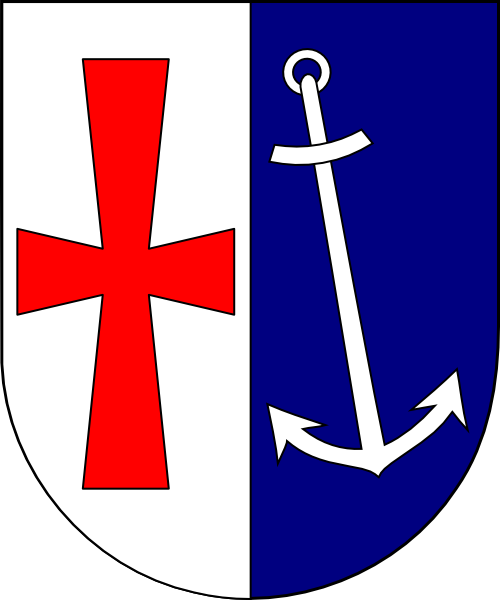 Coat of arms (shield only) of Jan Valerián Jirsík, bishop of České Budějovice, Czech Republic (1851 - 1883).